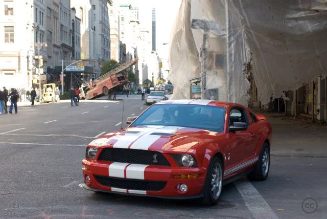 2007 Shelby Mustang GT500 on the set for I Am Legend. In the background there can be seen one of the streets the movie was filmed on including a demolished fire truck.